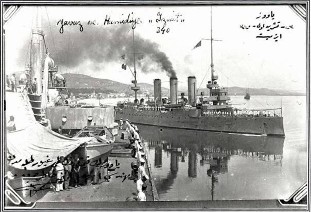 Hamidie (Hamidiye) from Yavuz Sultan Selim on October 23, 1924.